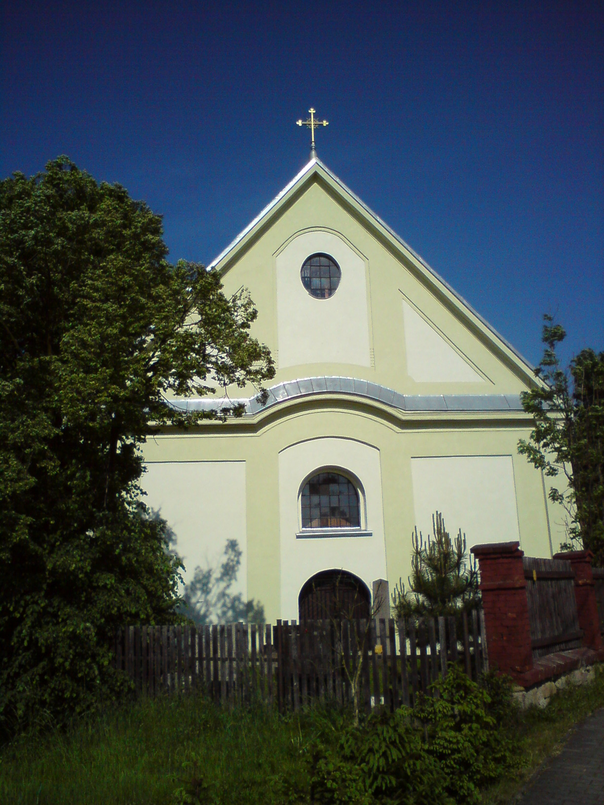 St. Bartholomew's Church in Ostrava